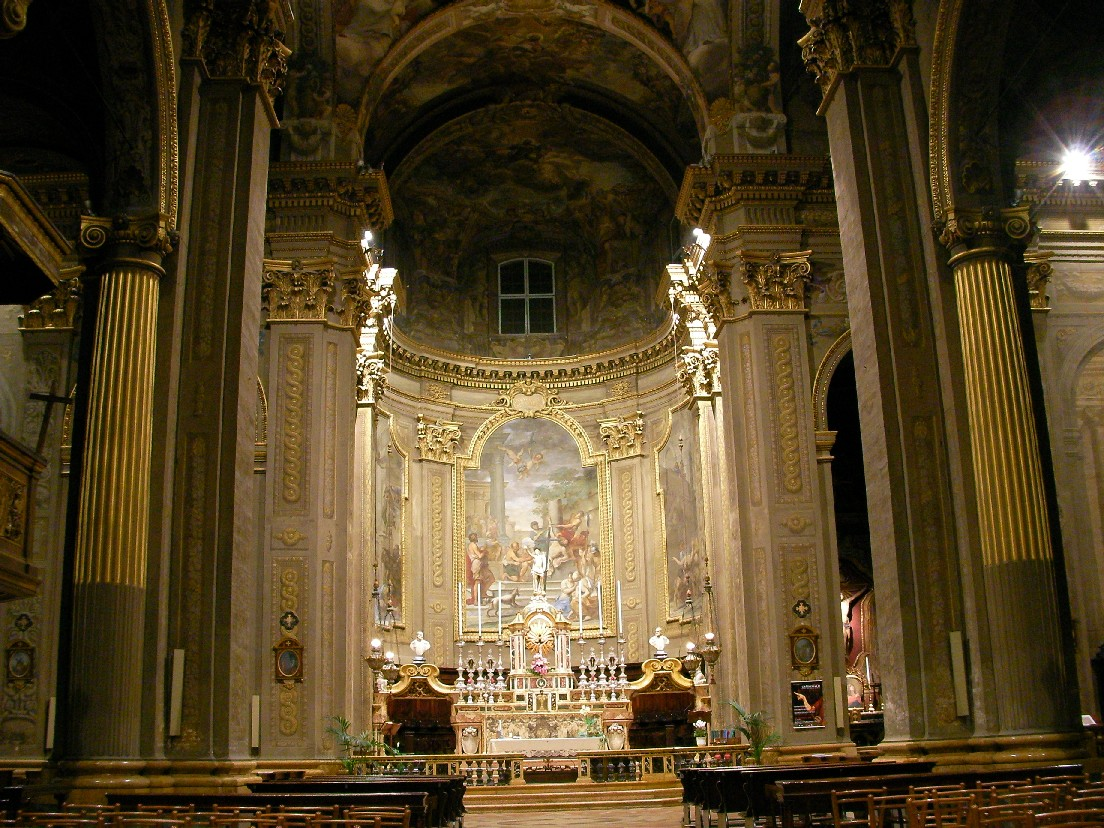 The inside of the church of St. Gaetano and Saint Bartolomeo in Bologna